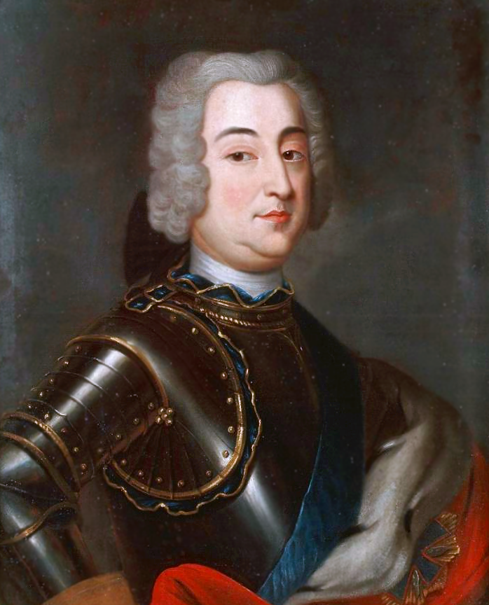 August Aleksander Czartoryski